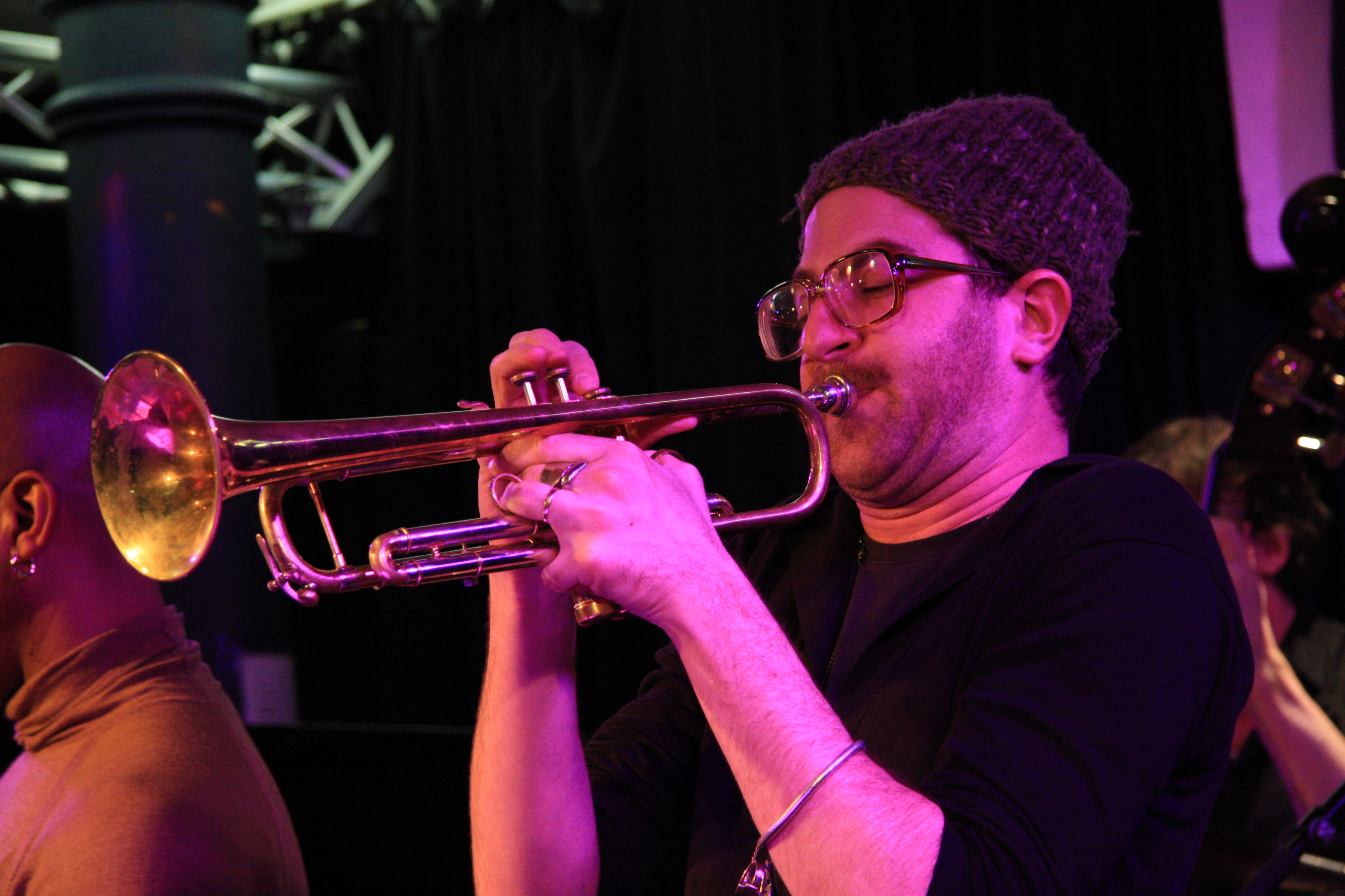 Avishai Cohen performing at a workshop in Munich (Germany) with the band San Francisco Jazz Collective